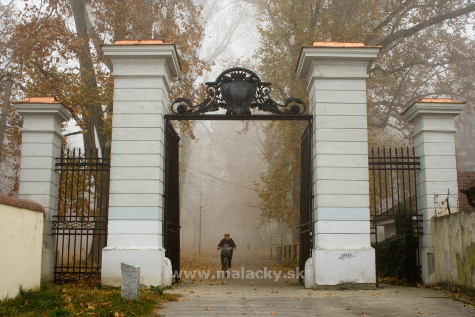 Manor in Malacky - Black gate